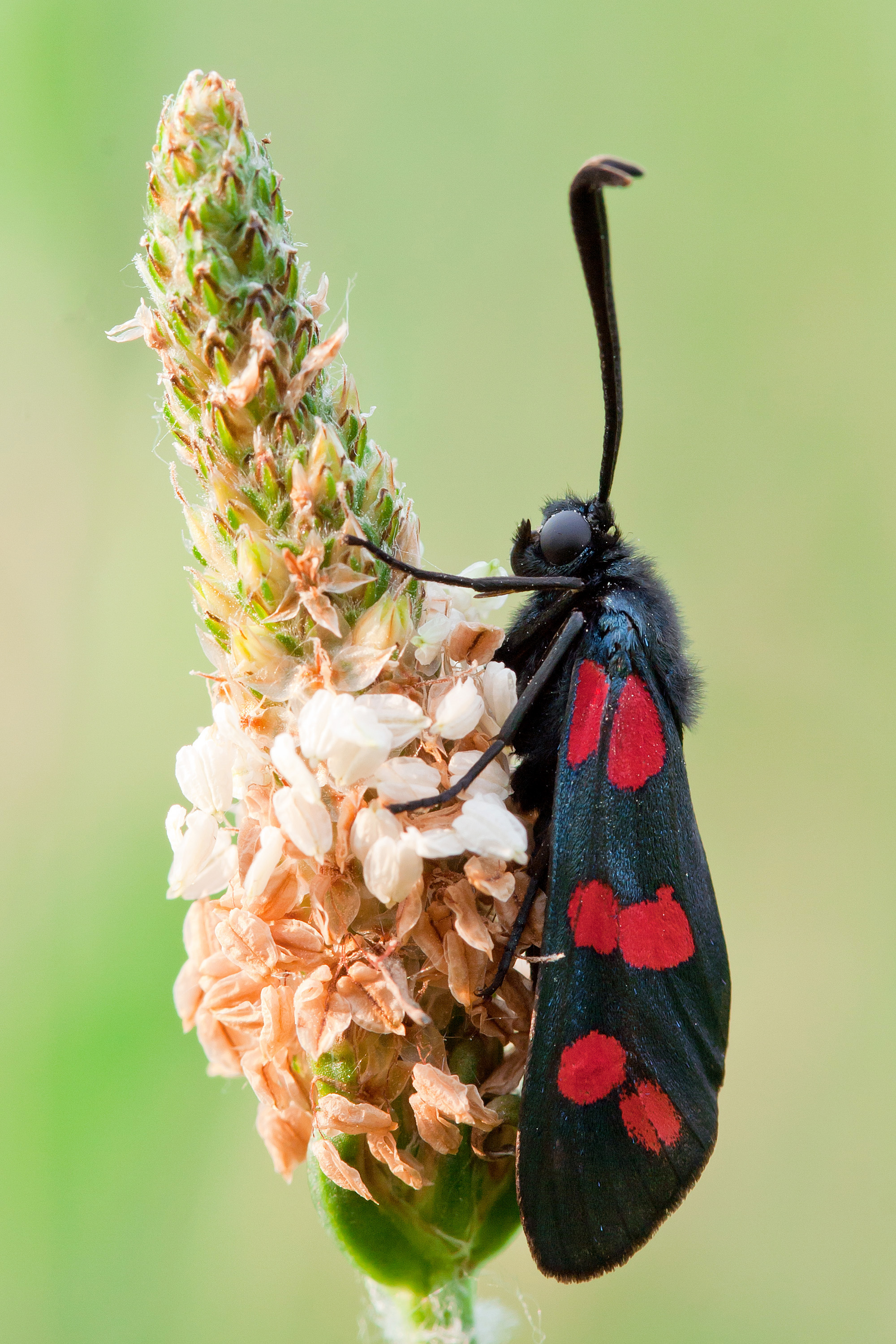 Zygaena filipendulae, better Large On Black .